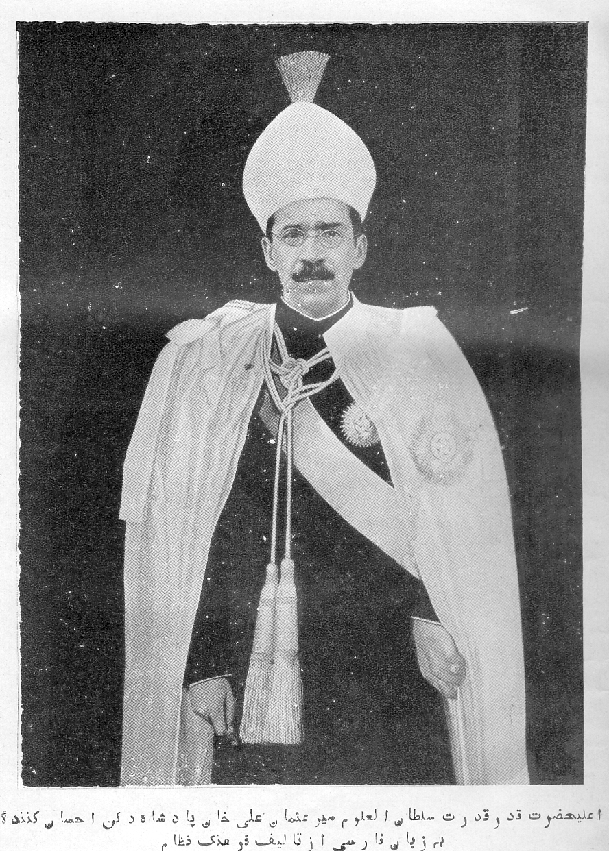 Nizam of Hyderabad. I have scanned this picture from a copy of Farhan Nizam, a Persian dictionary published in Haydarabad, India in 1926.